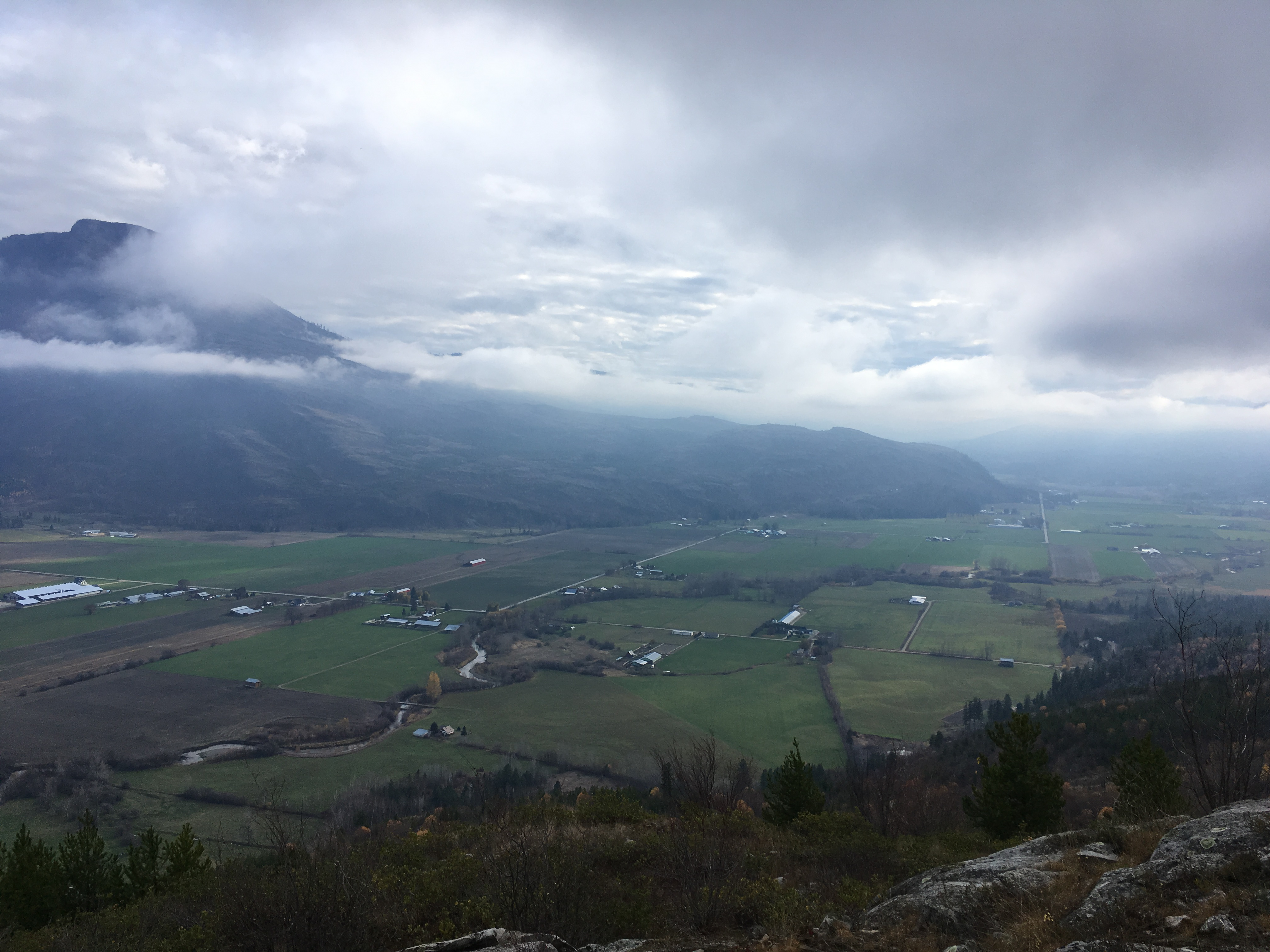 The Salmon River valley in south central Interior of British Columbia, from the Fly Hills forest service road